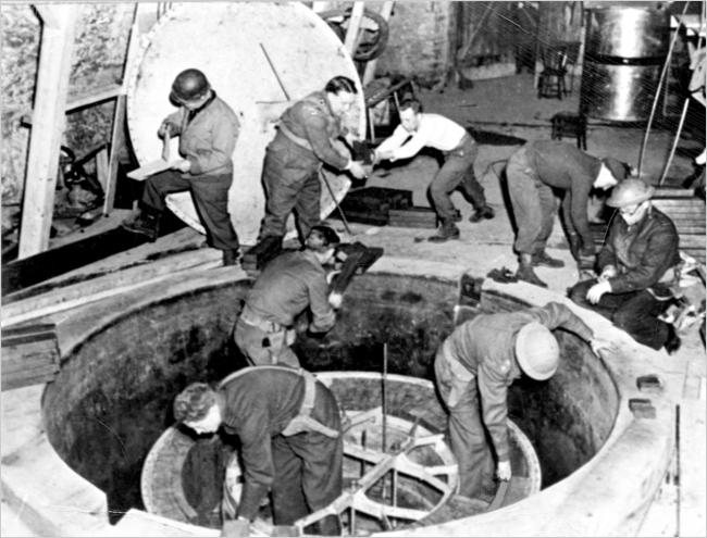 German Experimental Pile - Haigerloch - April 1945 The original caption reads: Dismantling the German experimental nuclear pile at Haigerloch, 50 km S.W of Stuttgart, April 1945. Rupert Cecil nearest camera, 'Bimbo' Norman extreme right, Eric Welsh standing on outer rim, the second man behind Cecil American soldier at upper left is Lieutenant Colonel John Landsdale, Jr., from the Manhattan Project. See Pash (1969), pp. 32-33